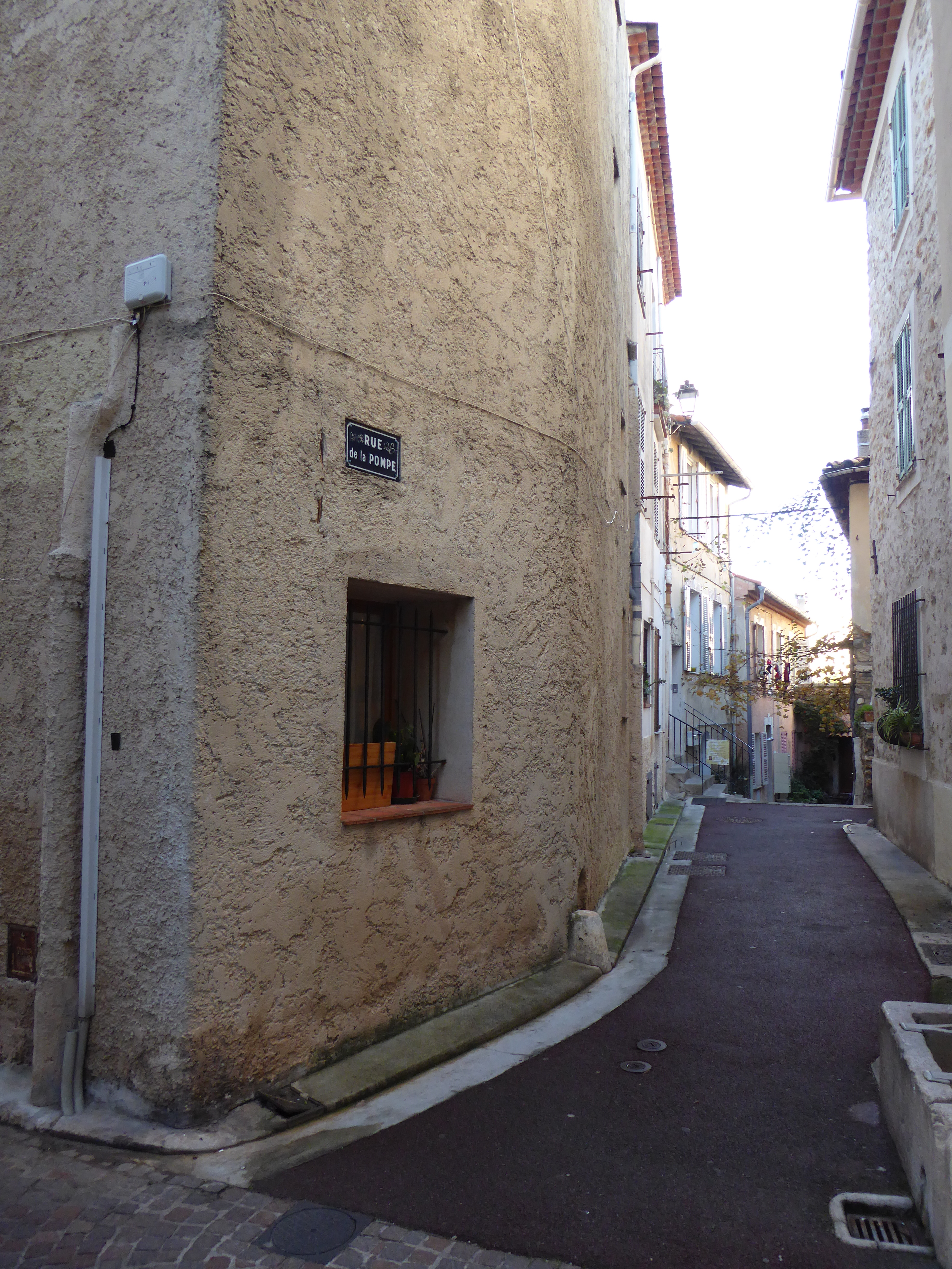 Rue de la Pompe, Antibes